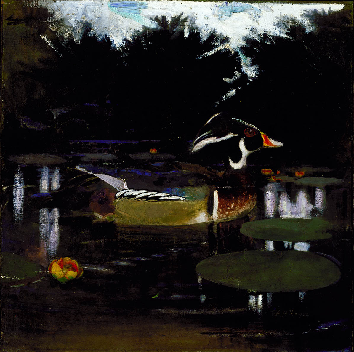 Painting "Male Wood Duck in a Forest Pool" by Abbott Handerson Thayer 1909. (Thayer died in 1921). In the painting, for the book "Concealing-Coloration in the Animal Kingdom", Thayer tries to show the brilliant plumage as disruptive camouflage.